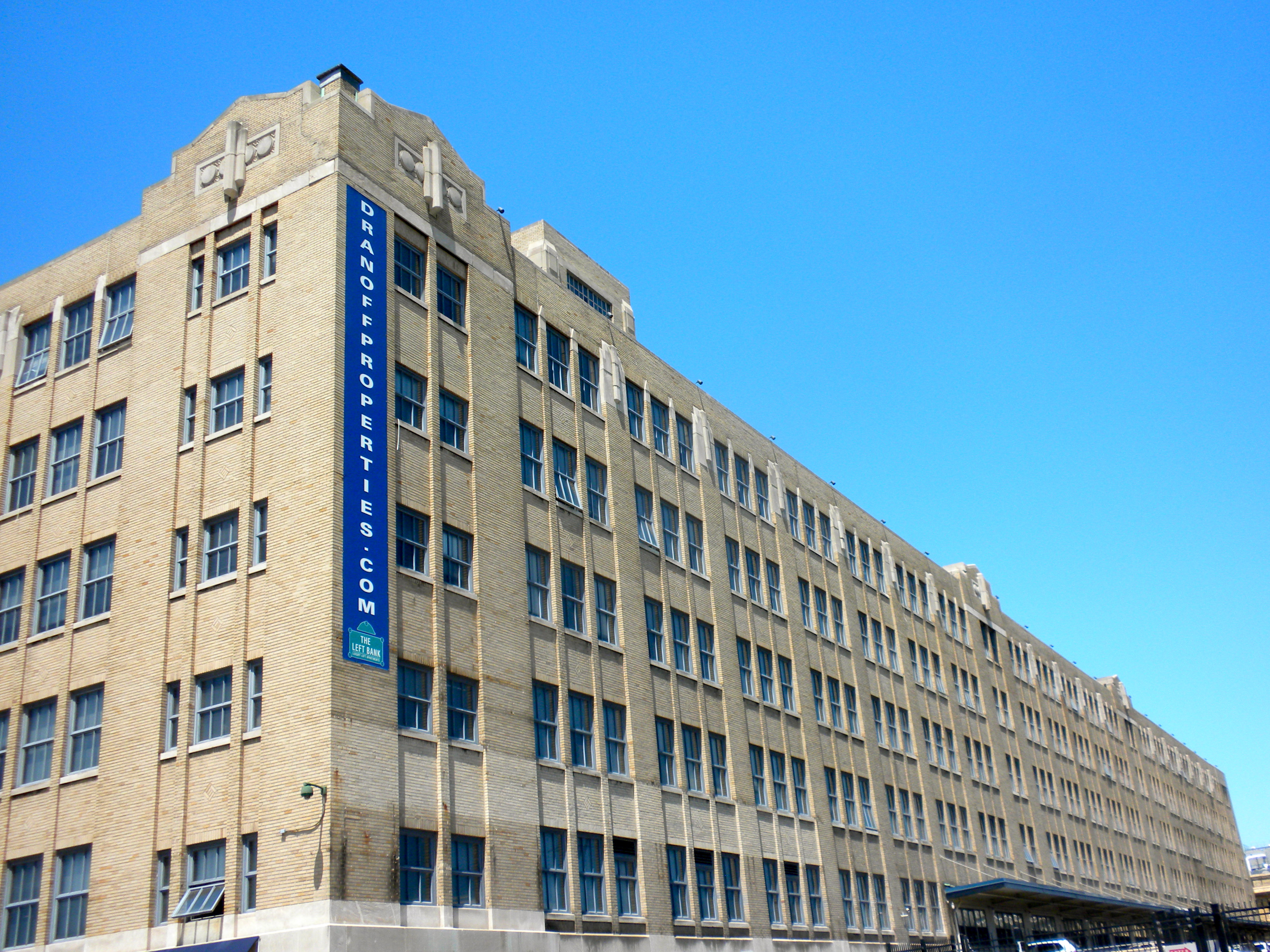 Pennsylvania Railroad Freight Building on NRHP since October 28, 1999. At 3118–3198 Chestnut Street just west of the Schuylkill River, just east of the Hajoca building (also on the NRHP). Handled the freight business for the Pennsylvania Railroad (30th street station 2 blocks north), converted to housing. Plaque on building says it is one of the largest buildings on NRHP to be converted to housing. It is very large. In University City area of Philadelphia